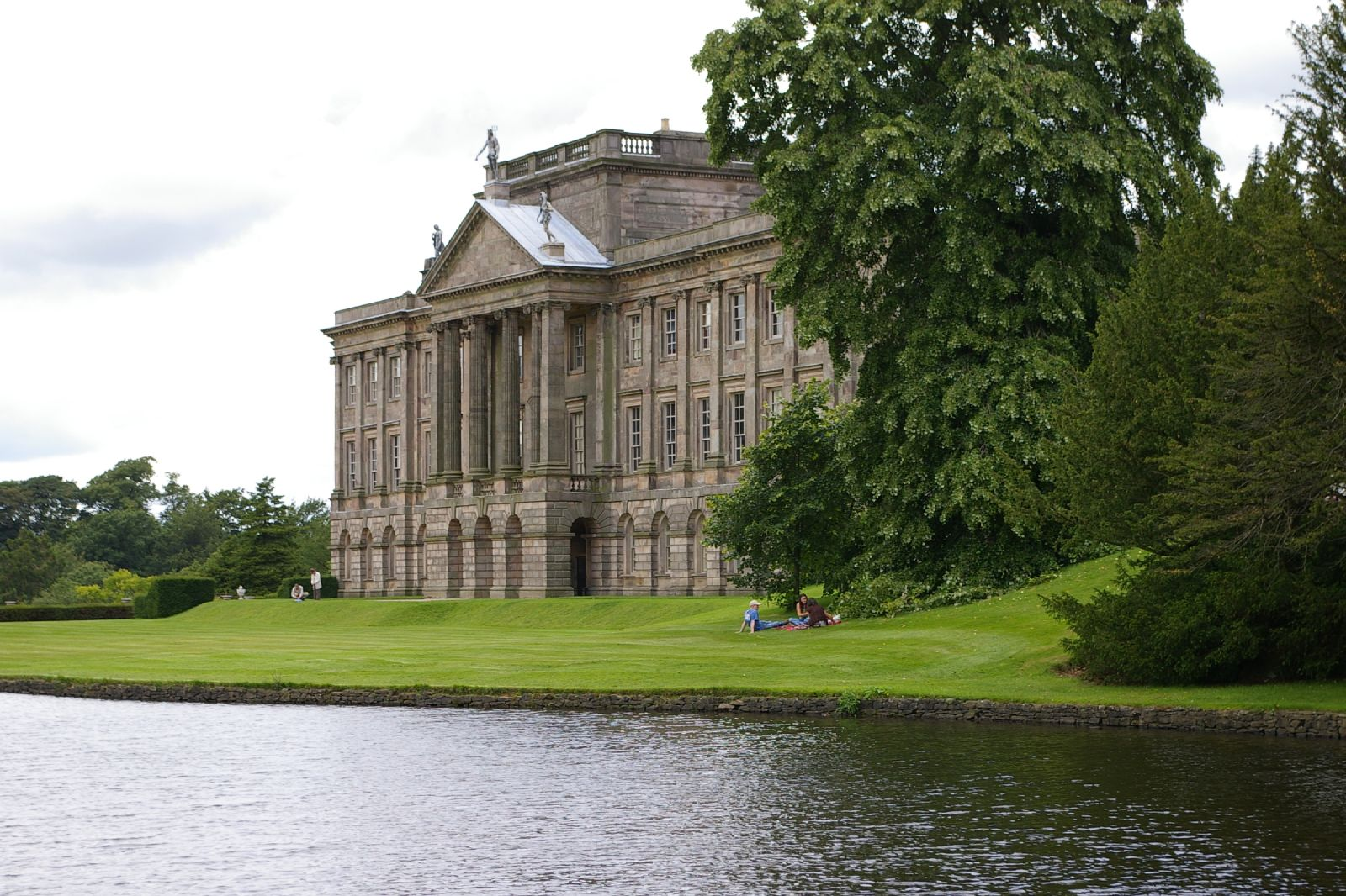 Lyme Hall at Lyme Park in Cheshire, England. This location served as Pemberley (Mr Darcy's estate) in the 1995 adaptation of Pride and Prejudice by the BBC.